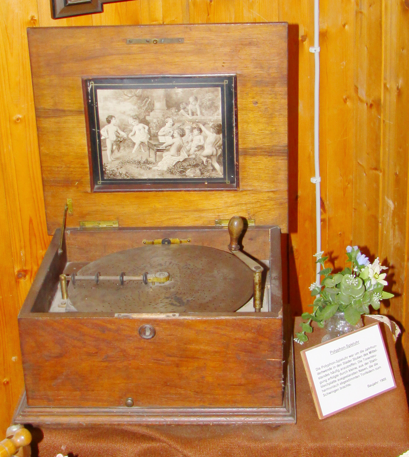 1905 Polyphon music box at the Technikmuseum Stade, permanent collection, March 2012